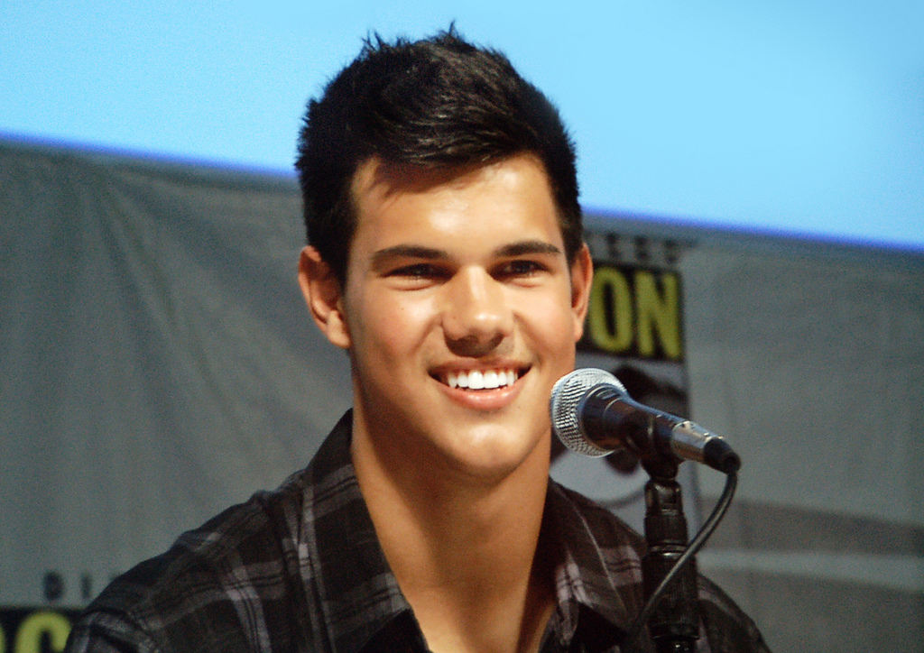 Taylor Lautner at 2009 Comic-Con International